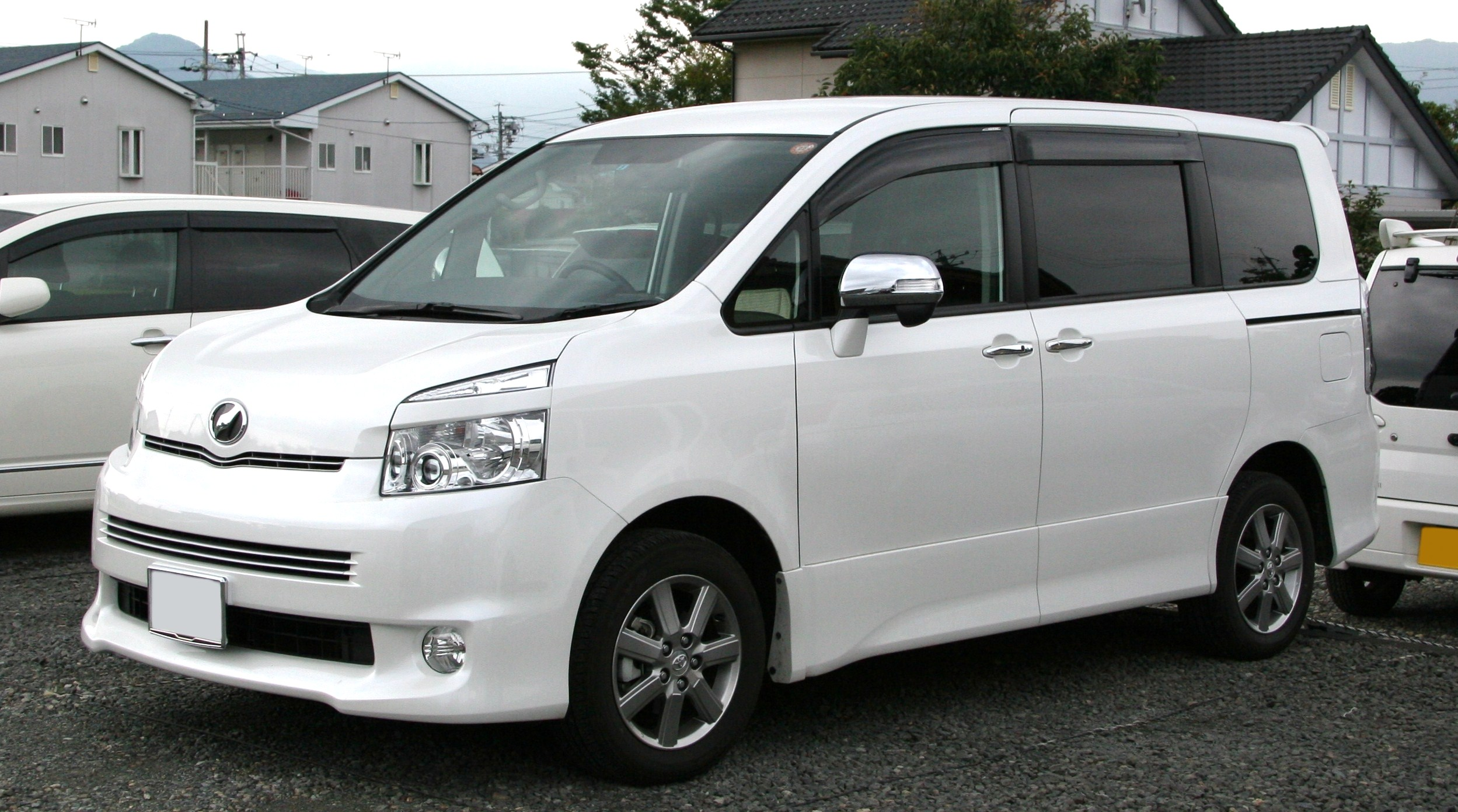 Toyota Voxy